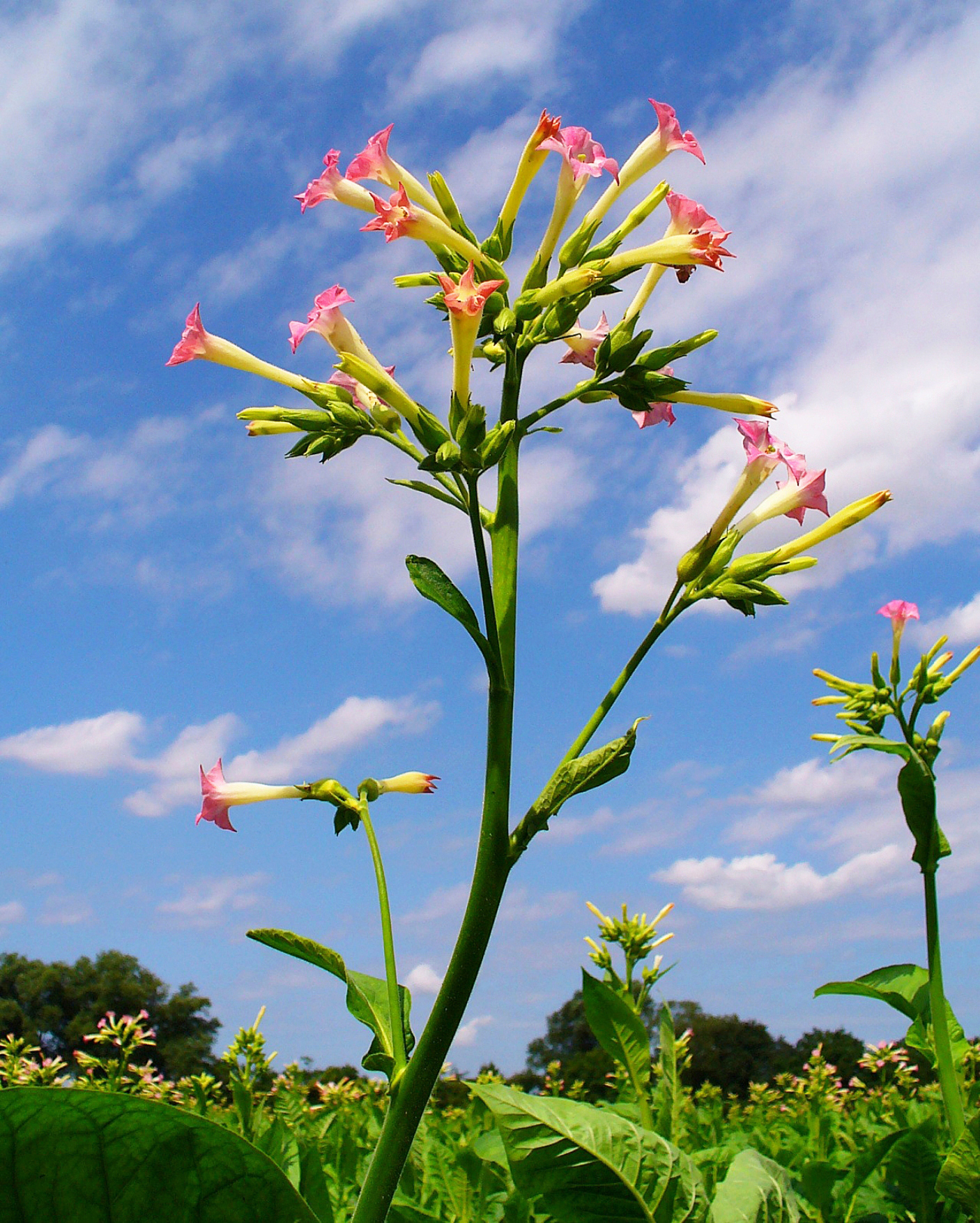 Nicotiana tabacum, Solanaceae, Common Tobacco, inflorescence. Stutensee, Germany.